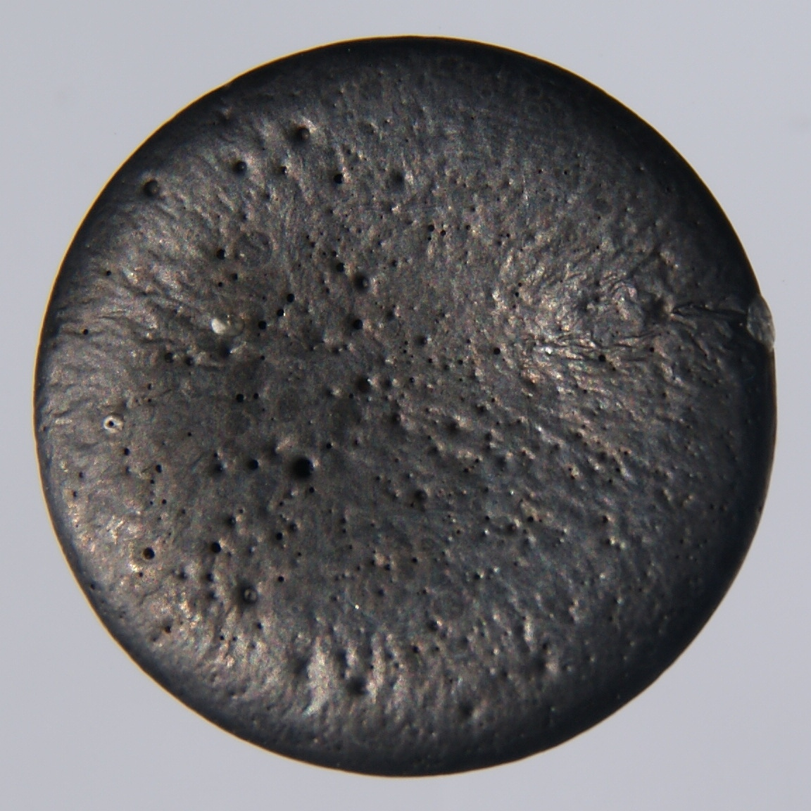 Ultrapure black, amorphous selenium, 3 - 4 grams. Original size in cm: 2